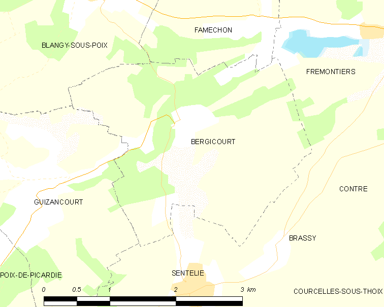 Map of French municipality Bergicourt